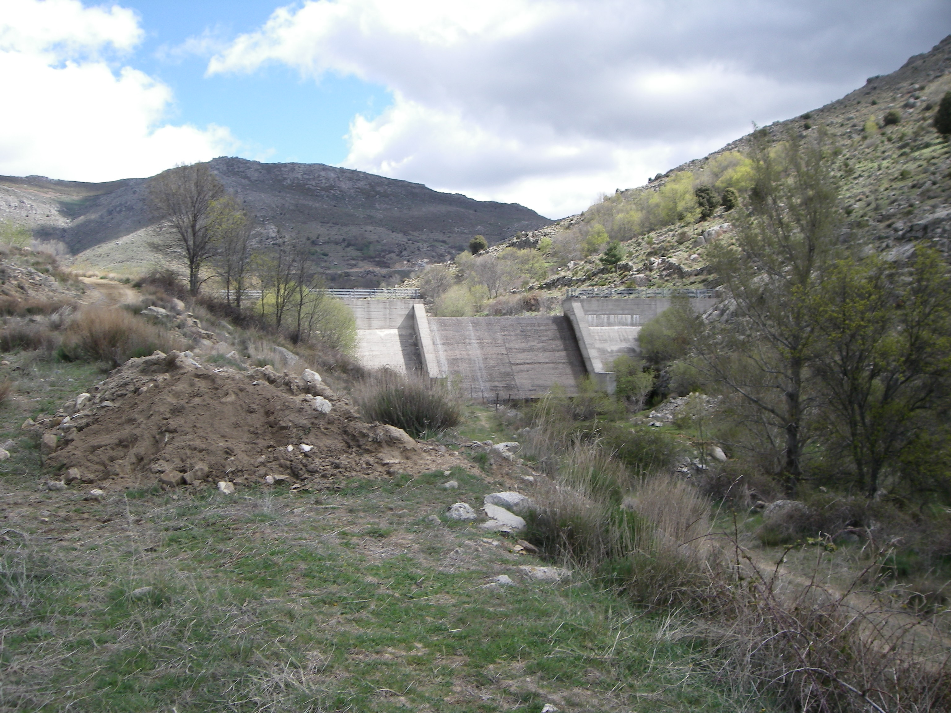 Presa de los Dos Arroyos